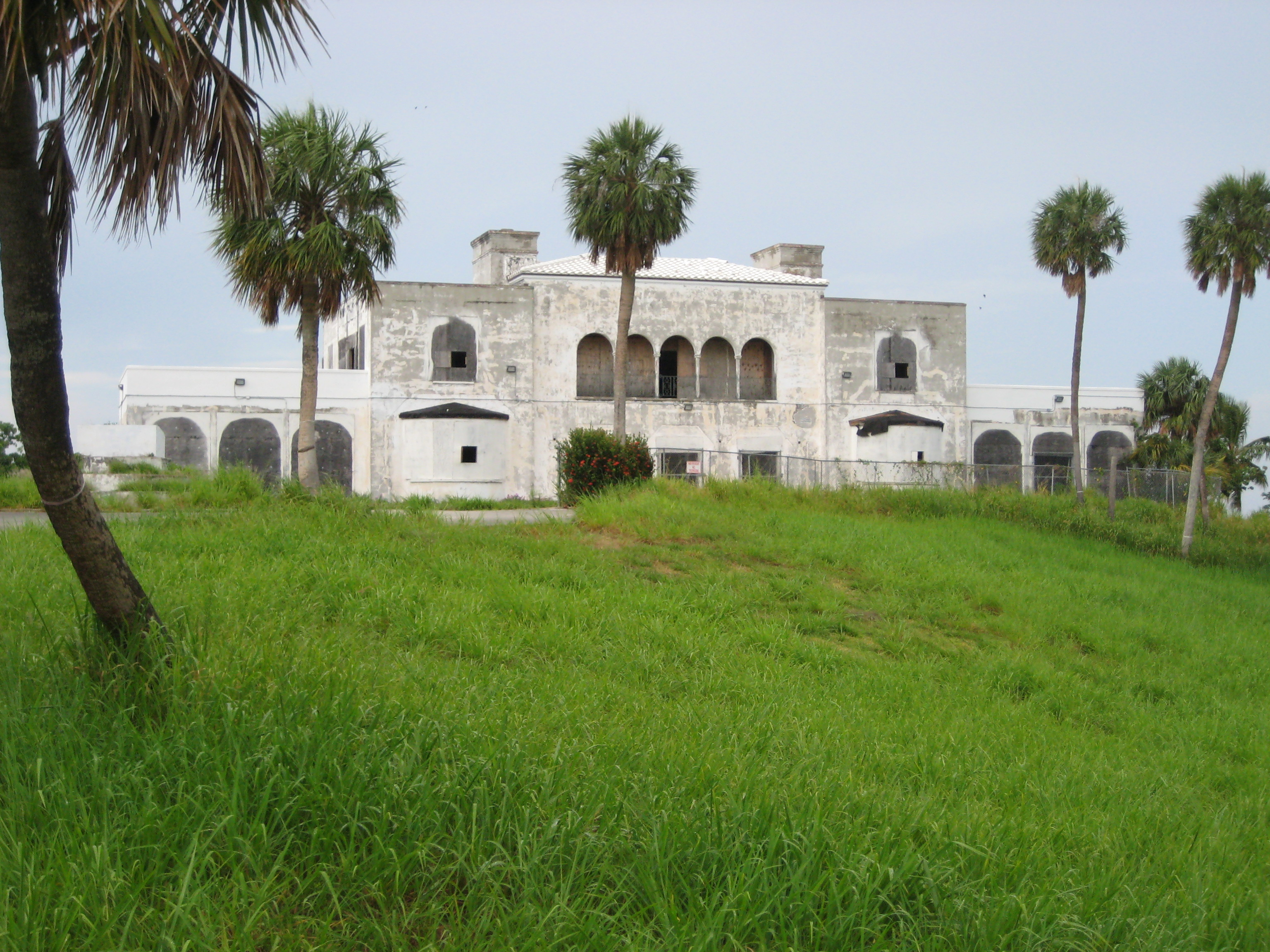 Photo of leach mansion